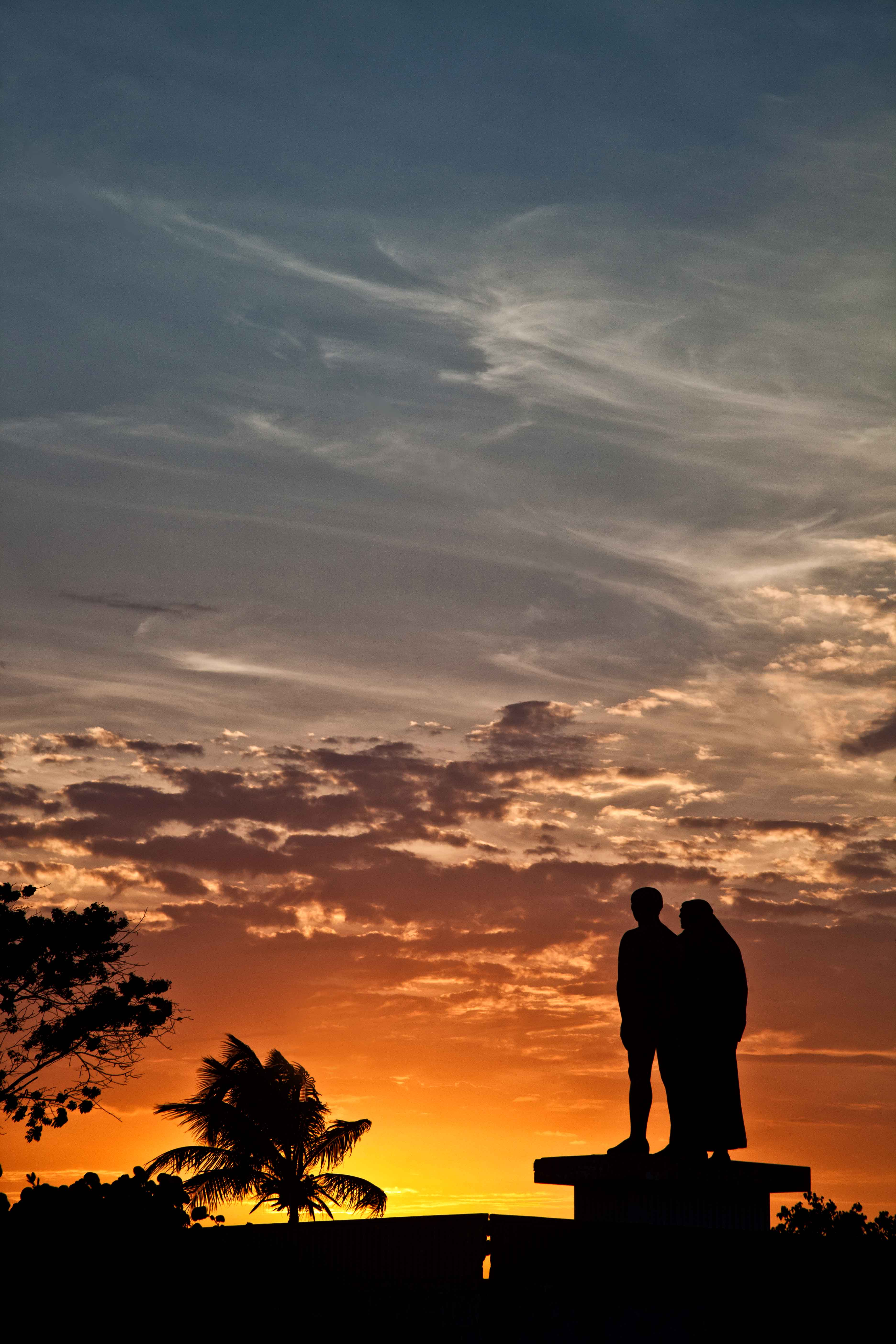 450th anniversary of the founding of the city of cumana.